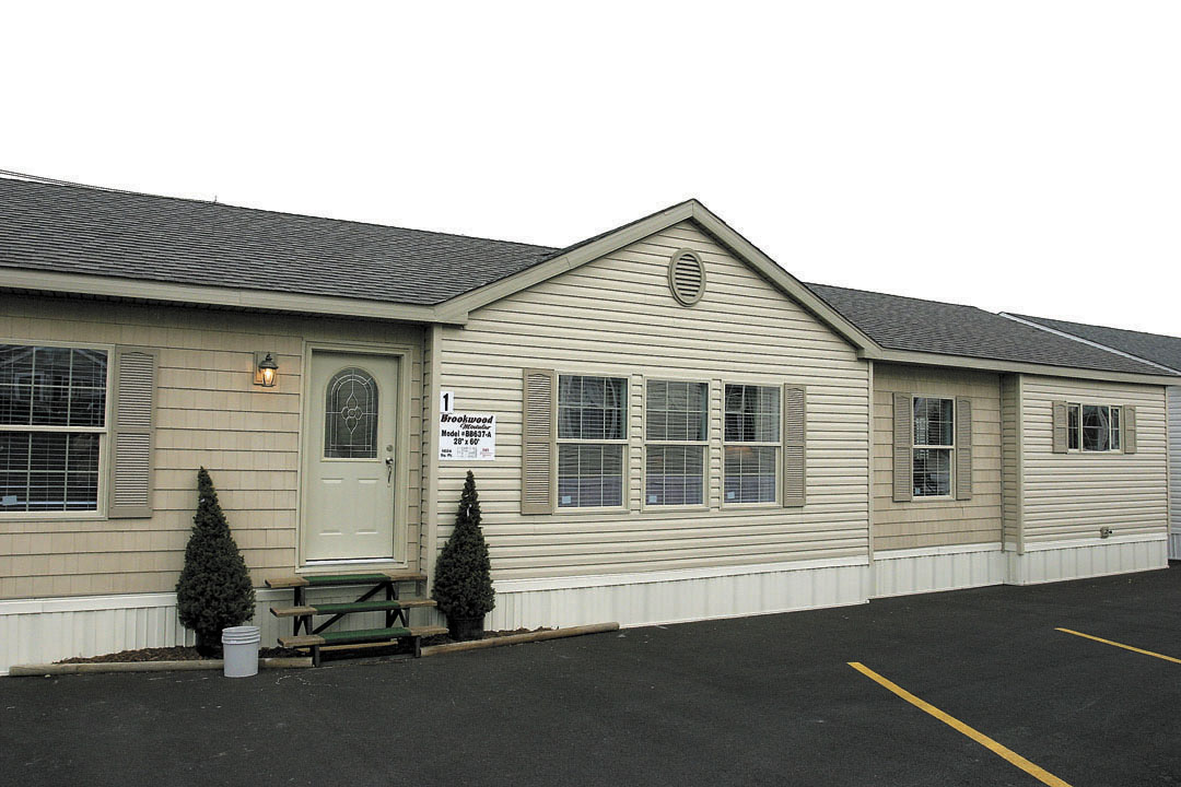 Exterior of a modern manufactured home